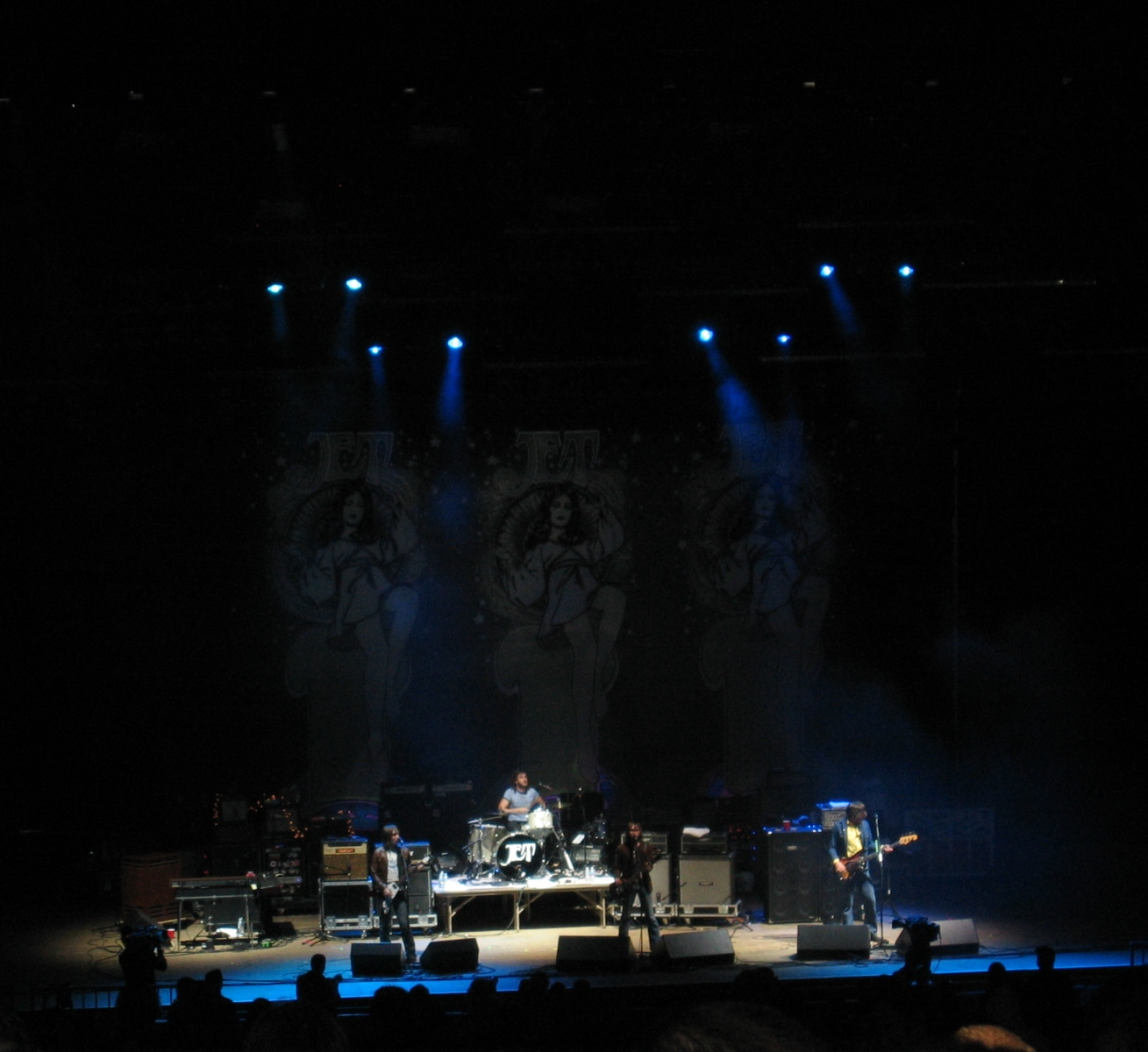 One of the opening bands, Jet, coming out to play - we missed Kasabian.